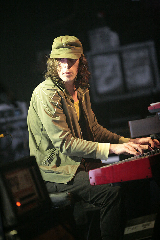 Rob Coombes performs with Supergrass at the Astoria, London